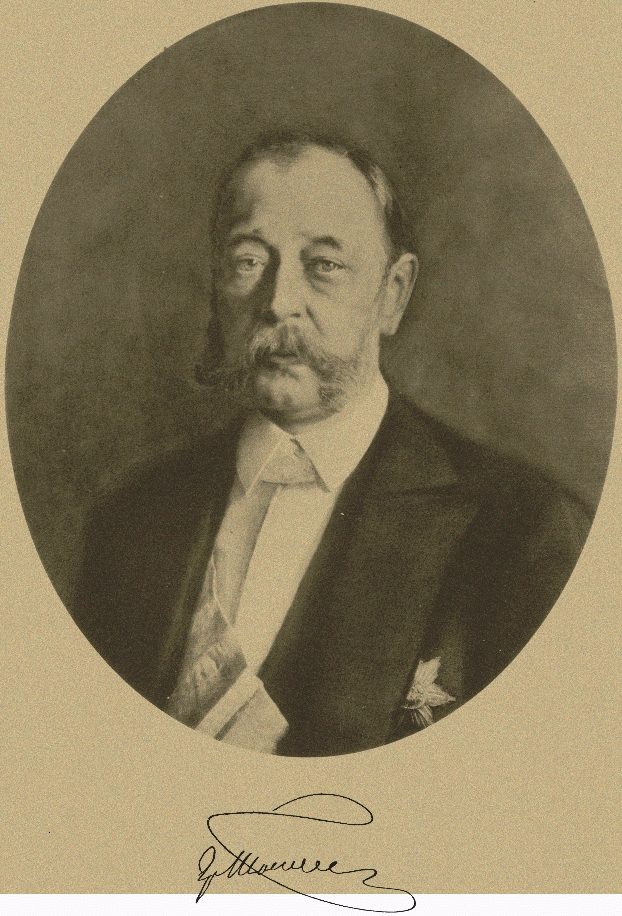 graf Dmitry Tolstoy - (1823-1889) - ober-prokuror, Ministr of Russia